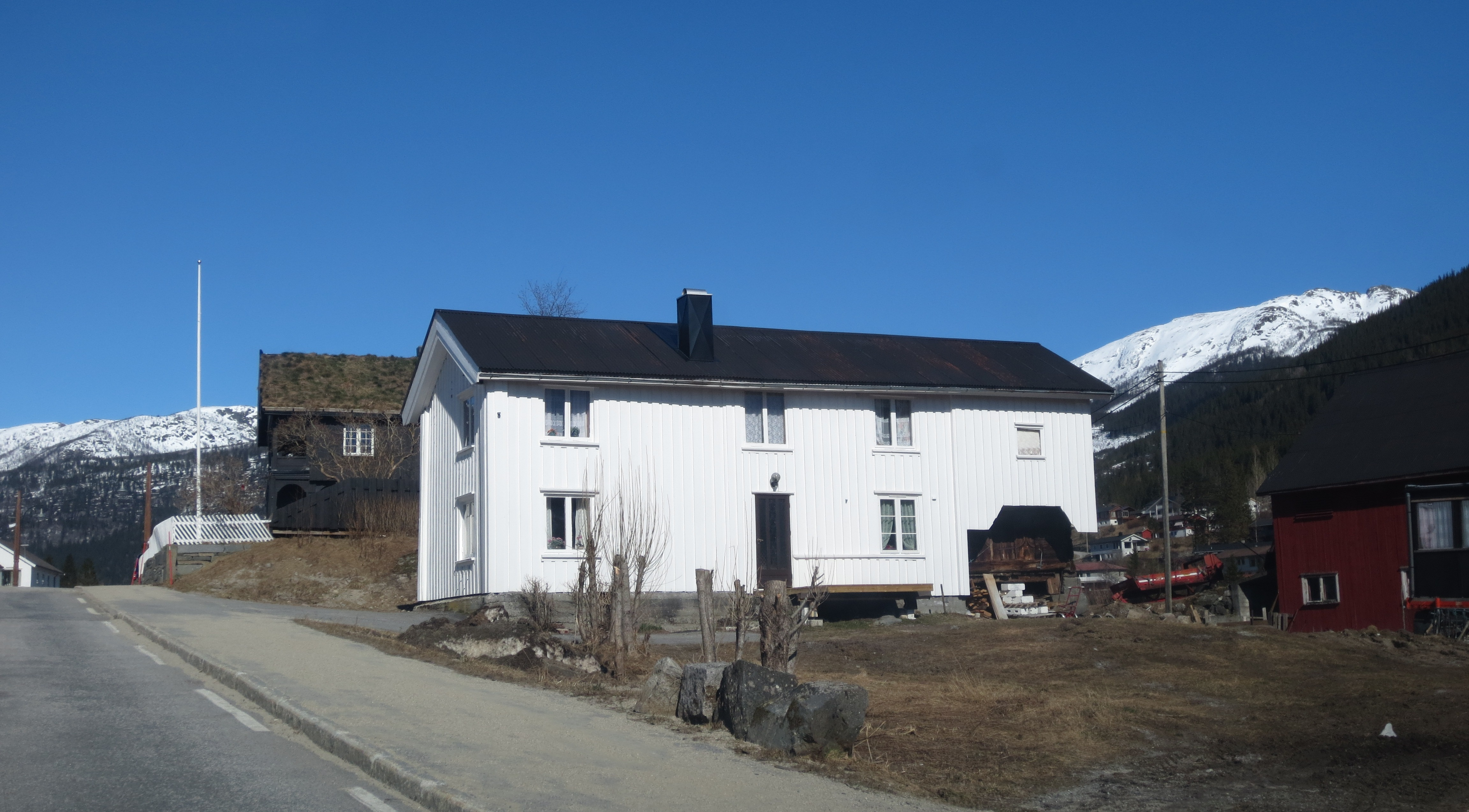 Valle municipality is the second from the north in the Setesdalen valley, Aust-Agder county, Norway.